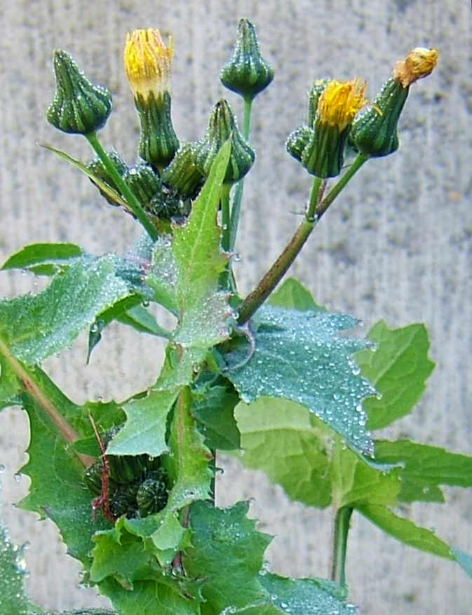 common sow thistle